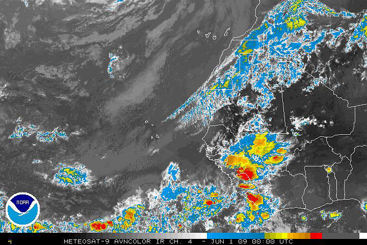 NOAA Satellite and Information Service satellite view of Eastern Atlantic Ocean, depicting precipitation levels as of 0000 GMT (UTC) on 1 June 2009.